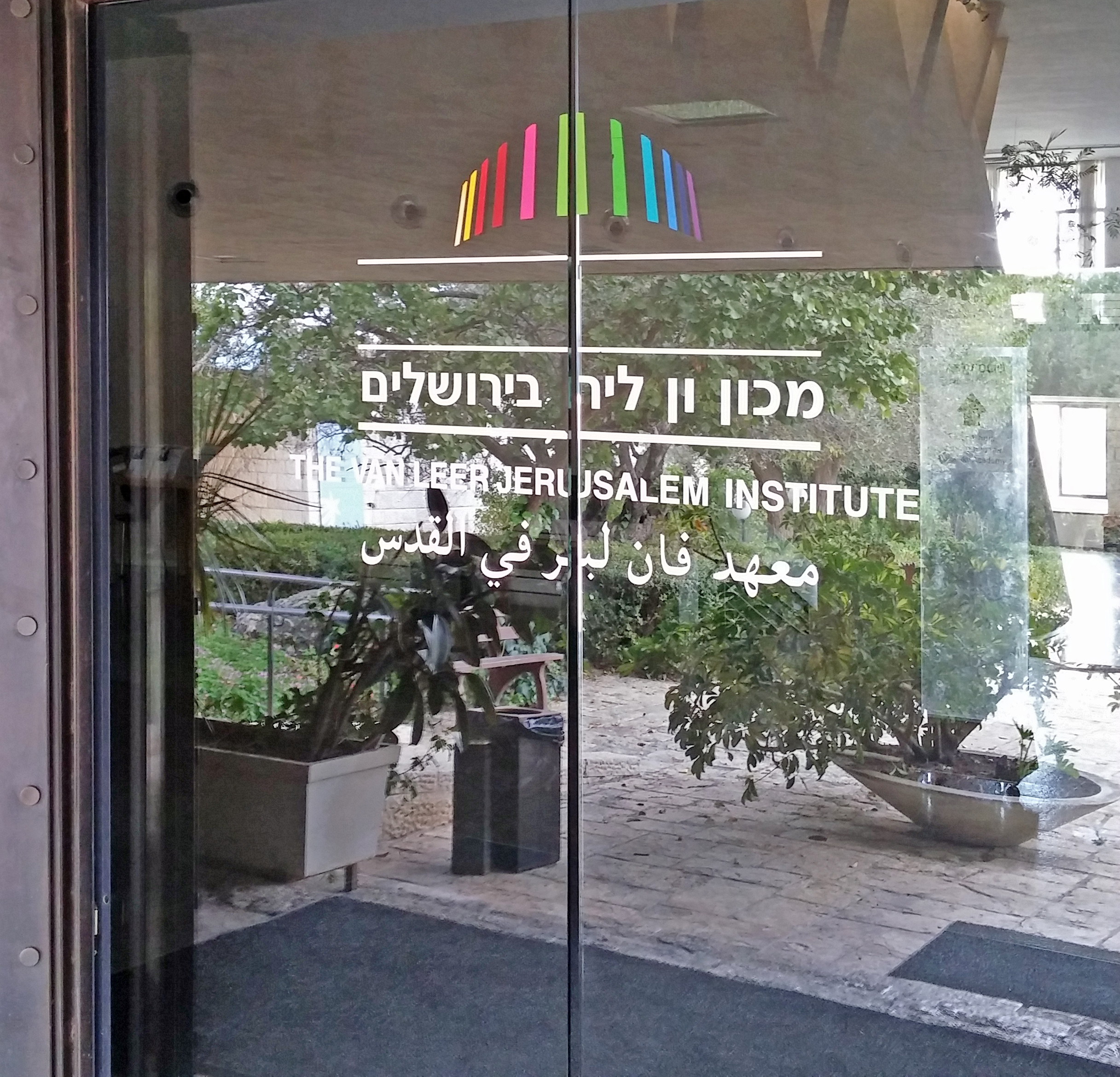 Van Leer Institute in Jerusalem